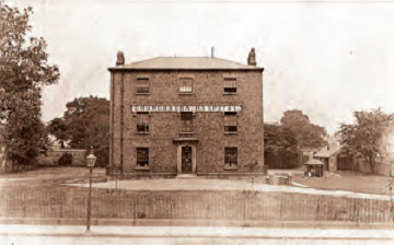 Old postcard showing Drumcondra Hospital